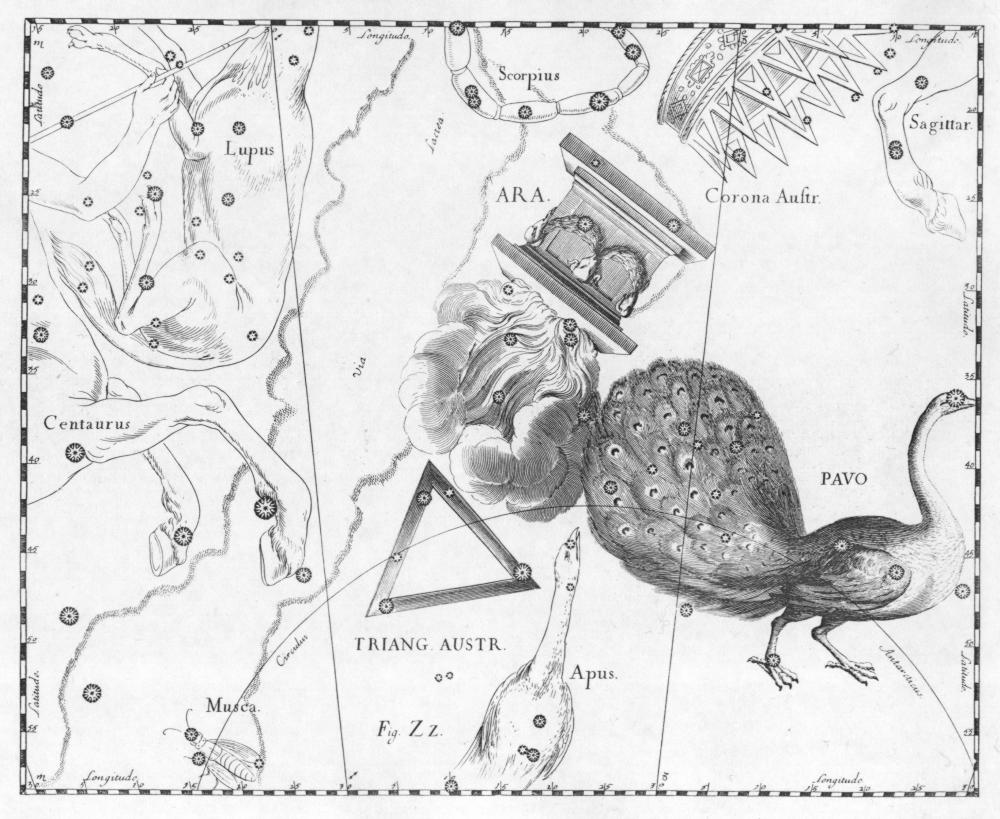 The Pavo constellation from Uranographia by Johannes Hevelius. The view is mirrored following the tradition of celestial globes, showing the celestial sphere in a view from "ouside"